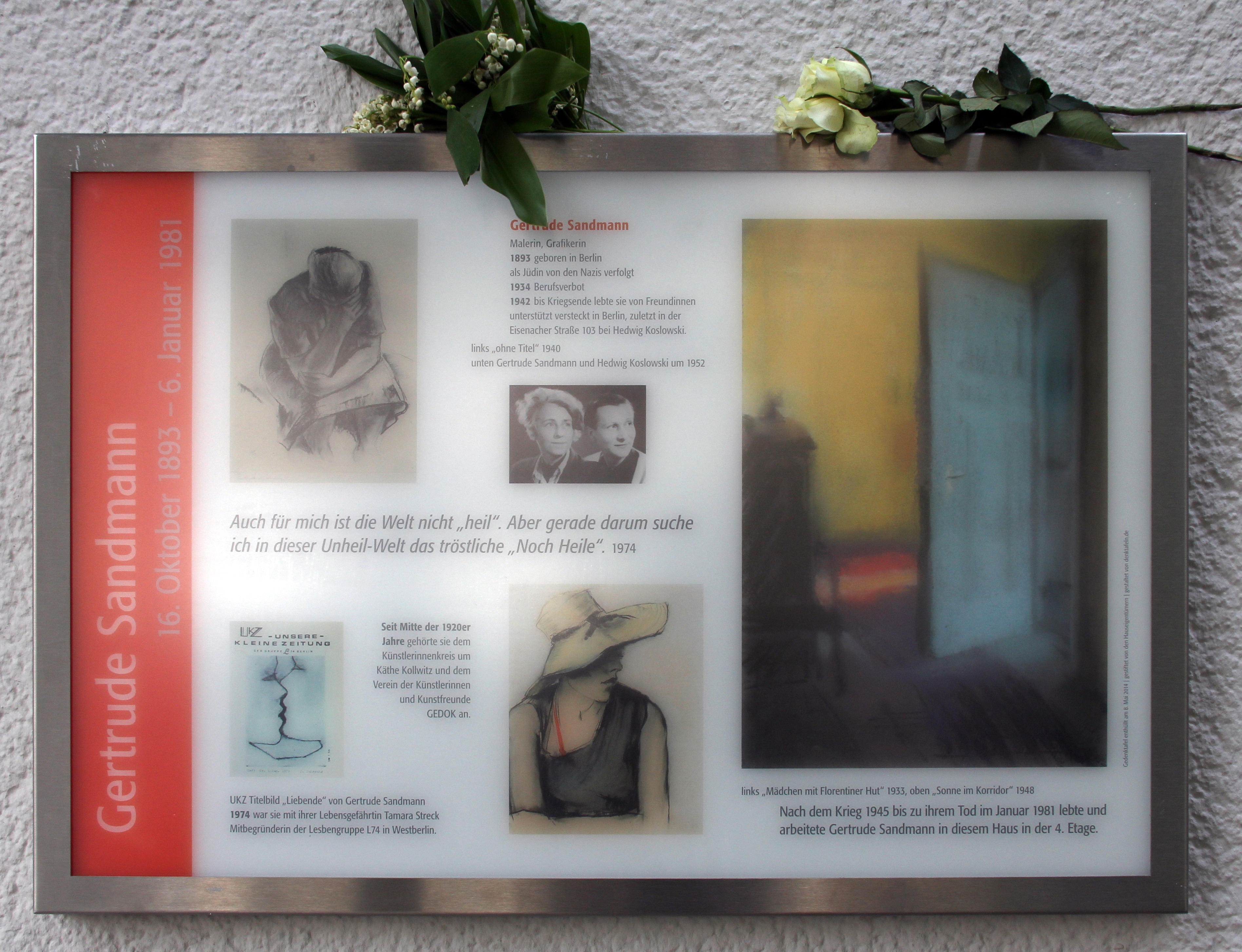 Memorial plaque, Gertrude Sandmann, Eisenacher Straße 89, Berlin-Schöneberg, Germany